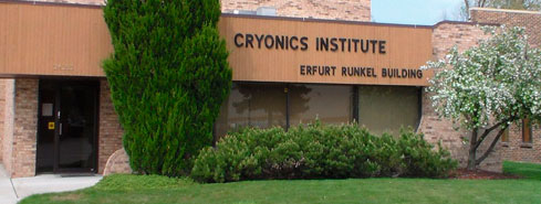 Cryonics Institute Facility and Headquarters located in Clinton Township, Michigan.